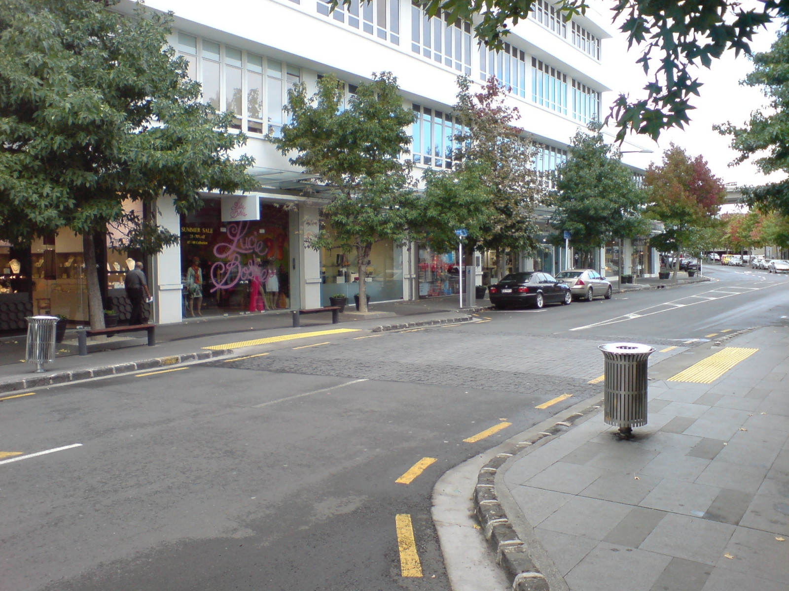 A kerb extension in Nuffield Street, Newmarket, Auckland, New Zealand.